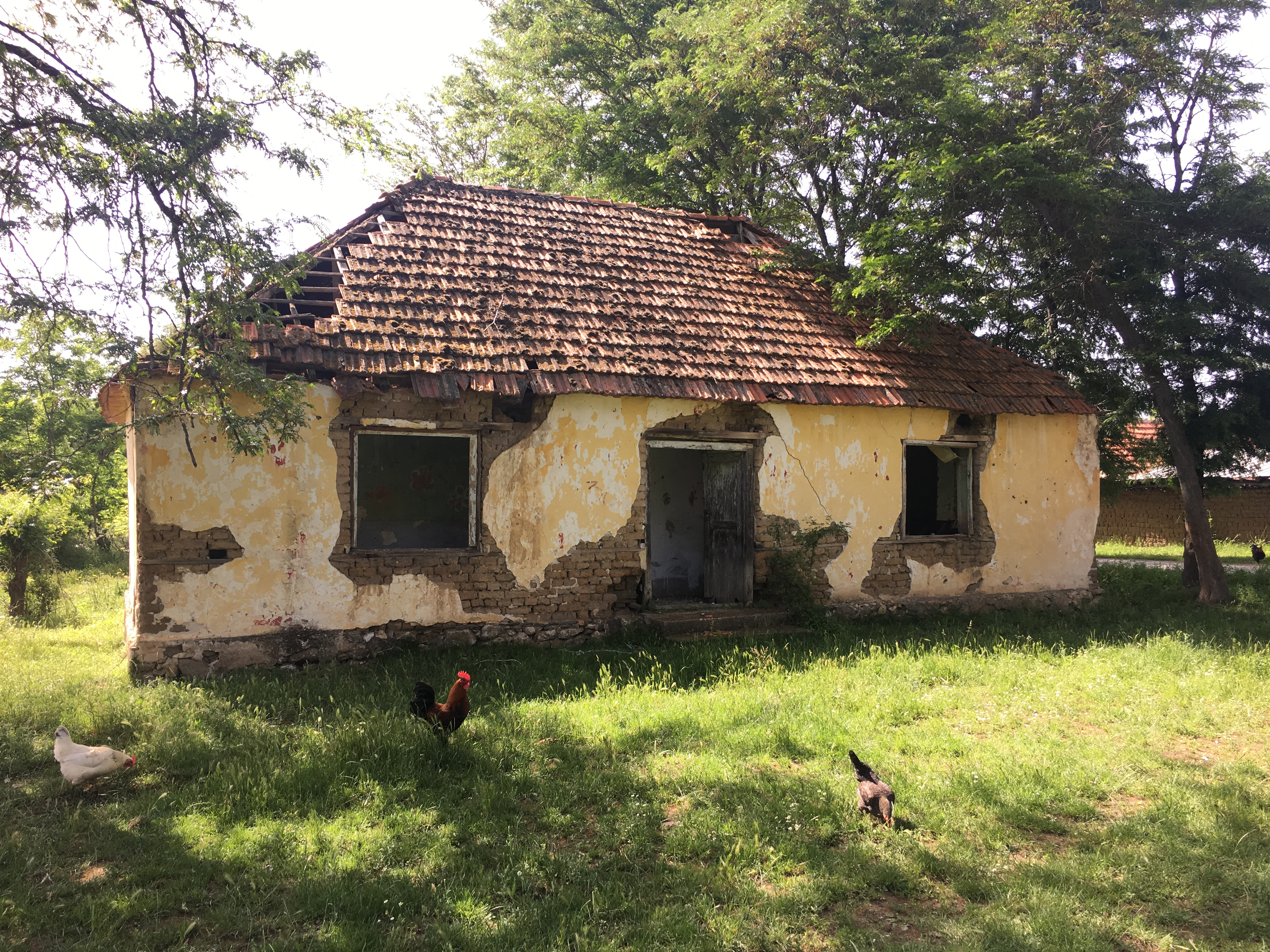 The former school in the village of Alinci